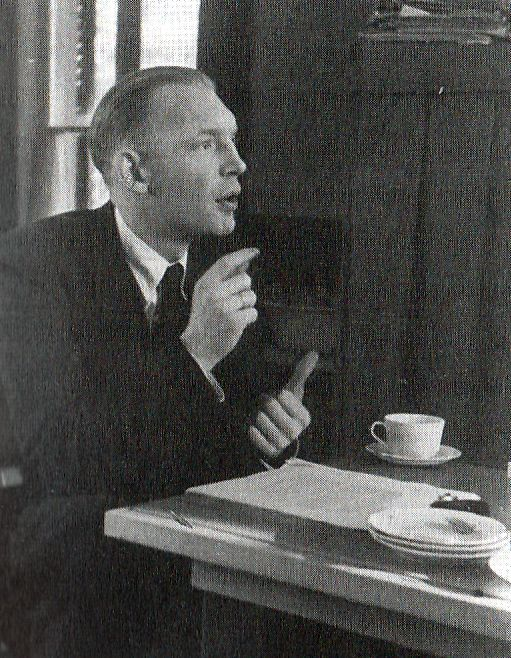 Martinus Gerardus Ydo